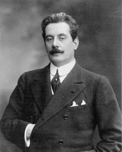 Giacomo Puccini, half-length portrait, standing, facing slightly left, right hand inside coat